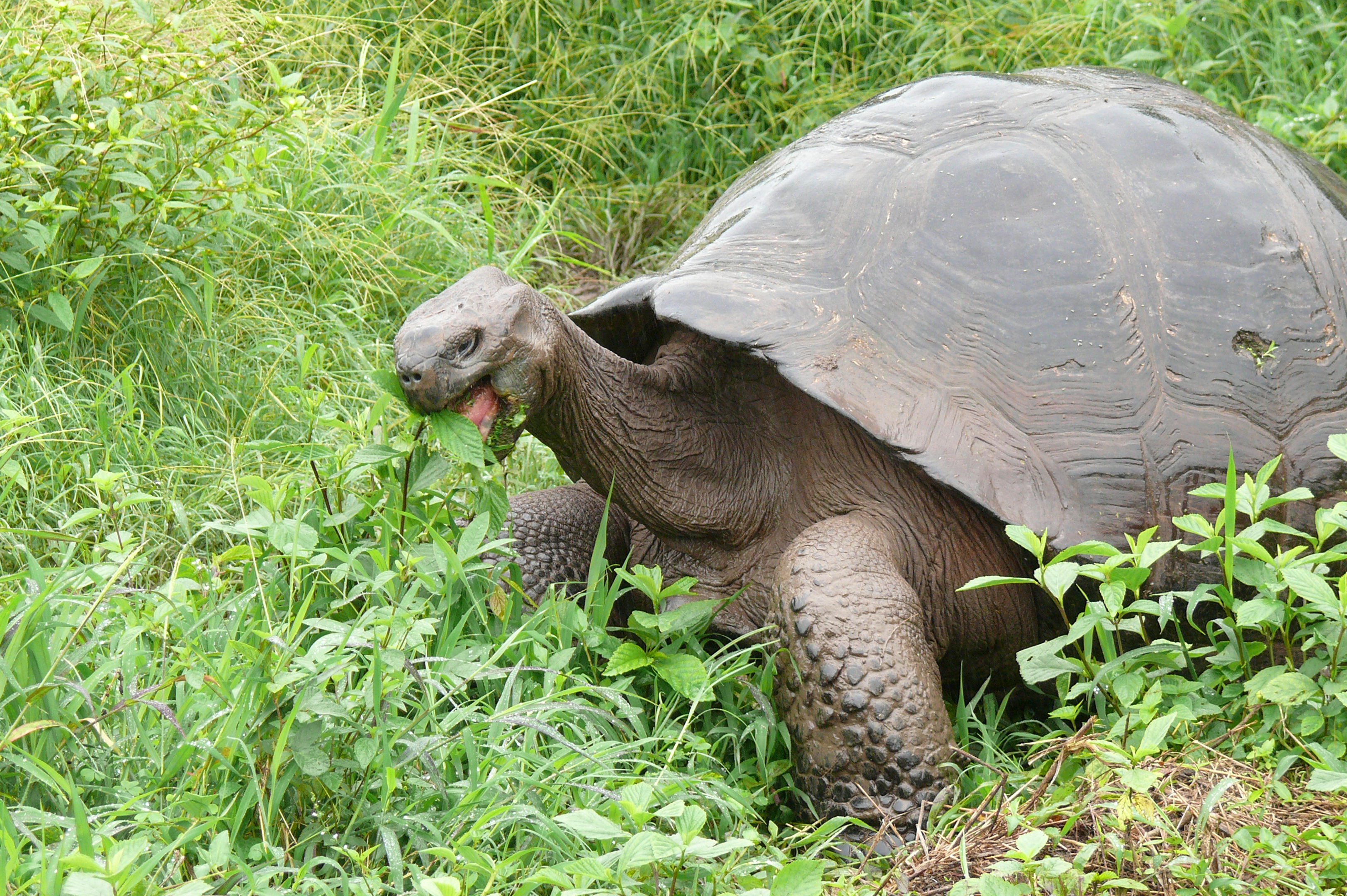 Indefatigable Island Tortoise (Geochelone nigra porteri). Recorded in the highlands of Santa Cruz Island